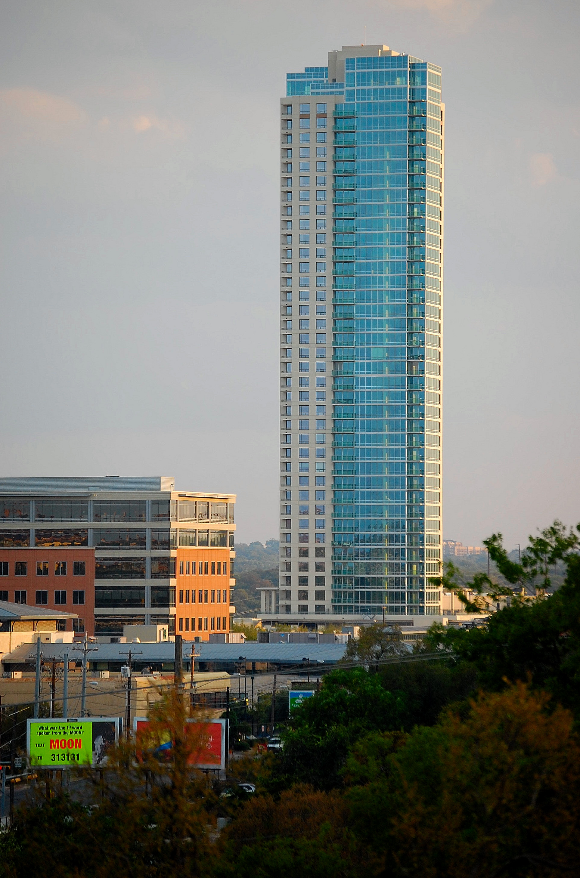 Spring Condominiums